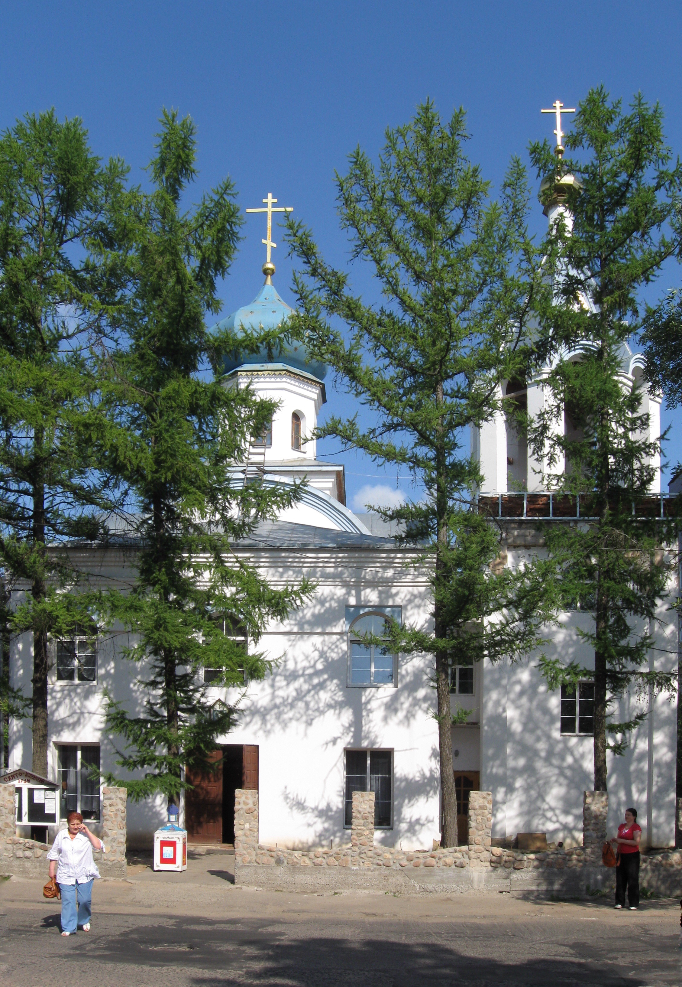 Church of the Dormition of the Mother of God (1858), Vitebsk, Belarus. View from West